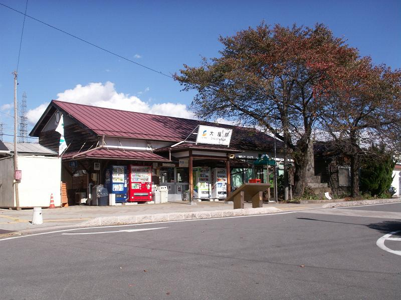 Ōya Station